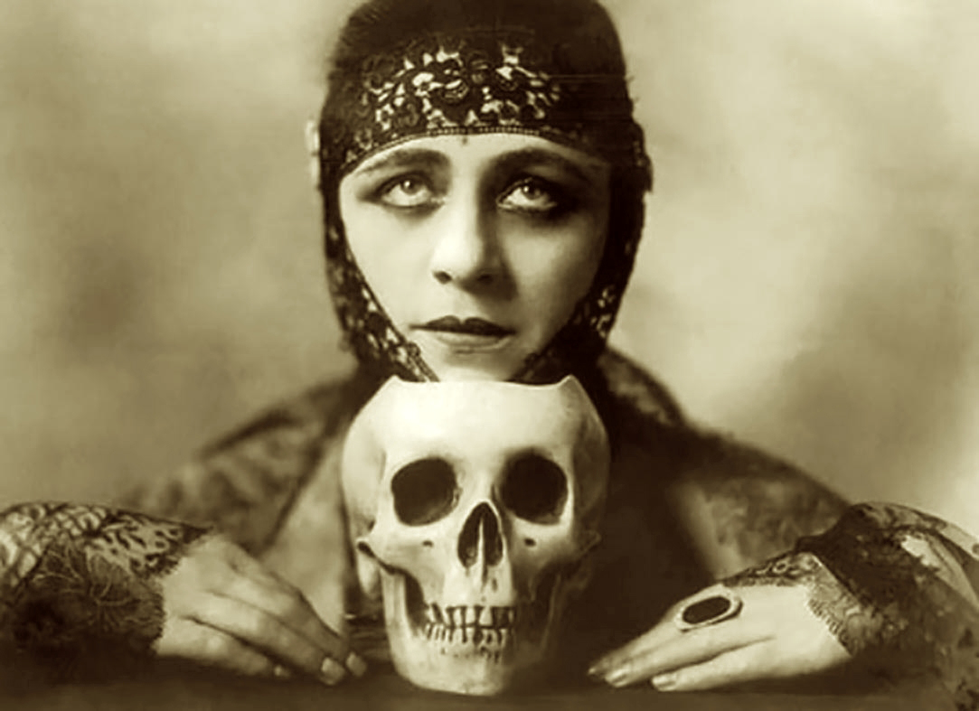 Photograph of Valeska Suratt by Orval Hixon, 1916